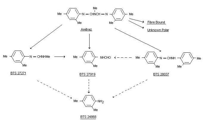 This file shows the amitraz metabolism in plants.